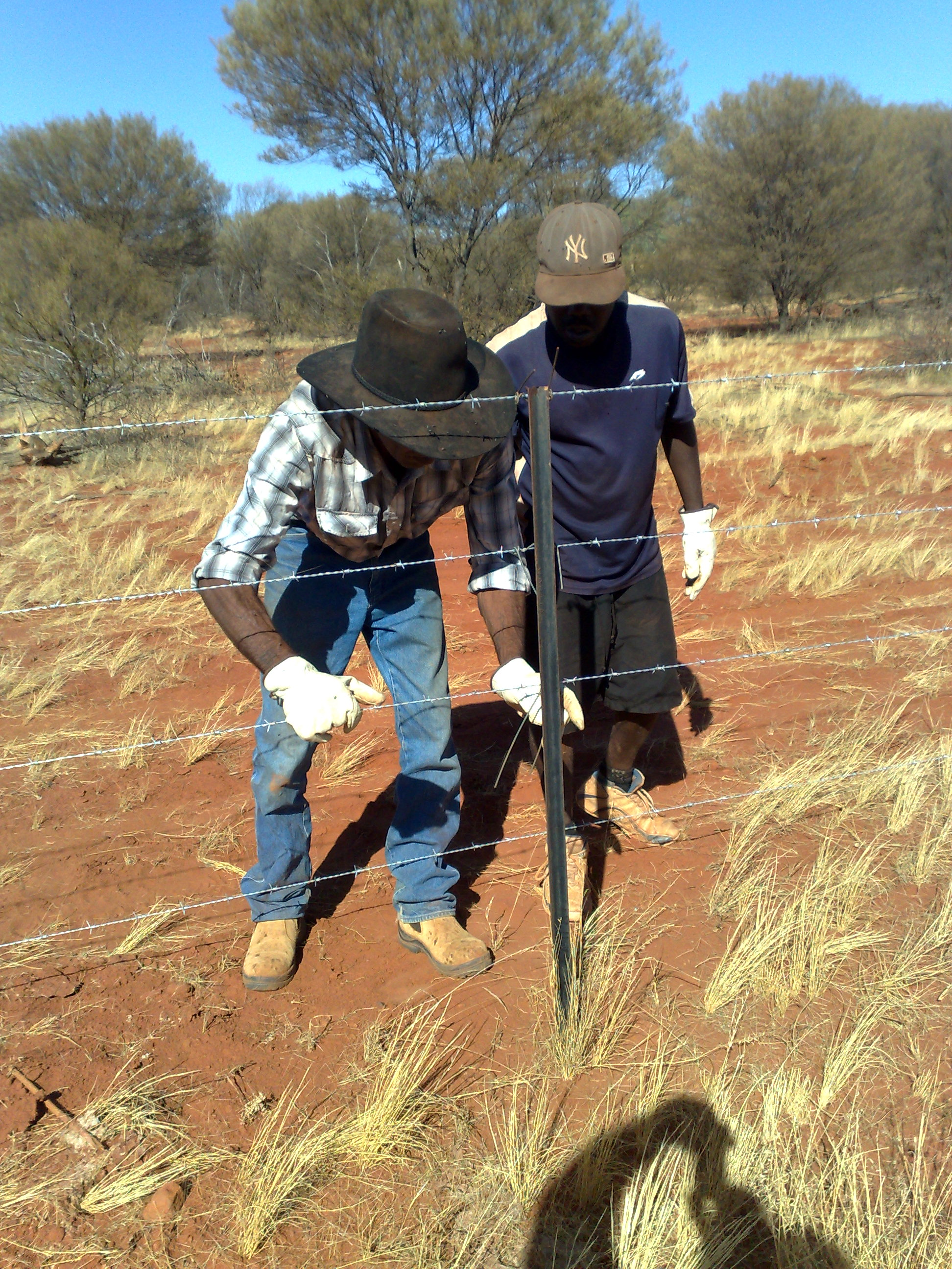 Angas Downs rangers are building a camel exclusion zone for a wildlife sanctuary to bring back the native wildlife and restore the environment